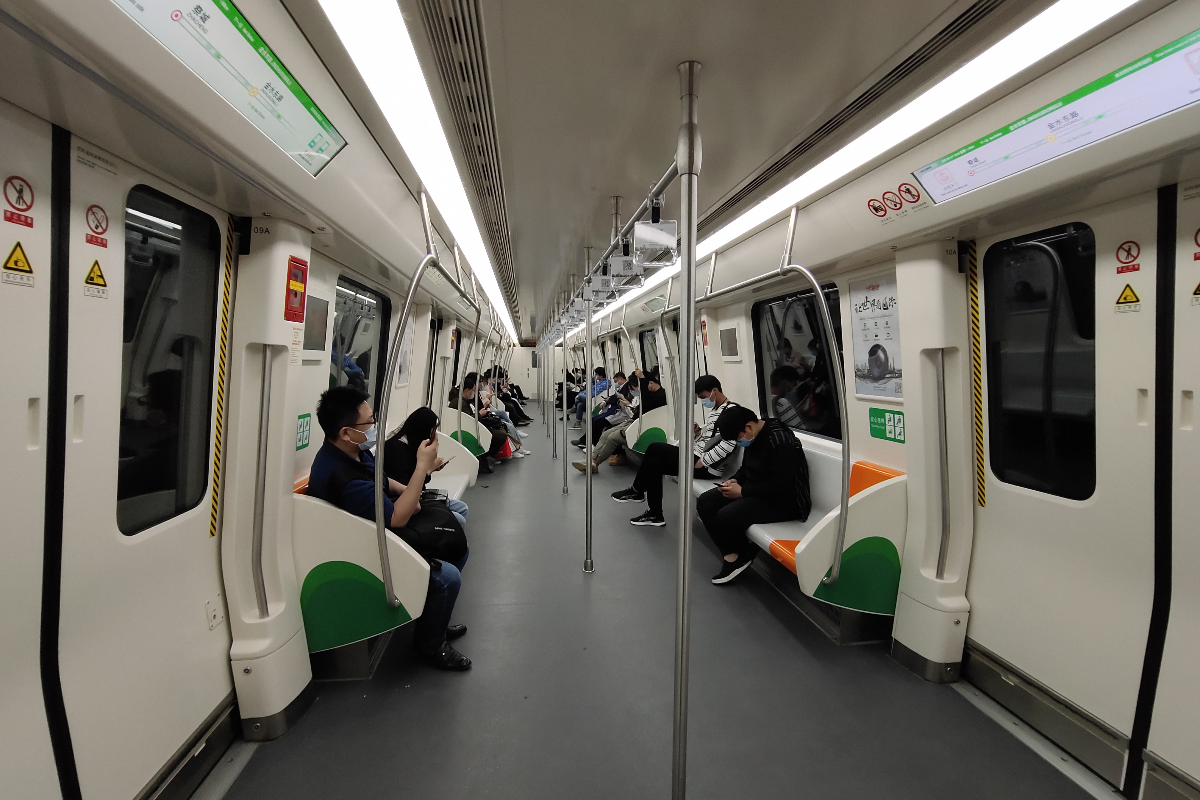 Interior of a Type A train on Zhengzhou Metro Line 5